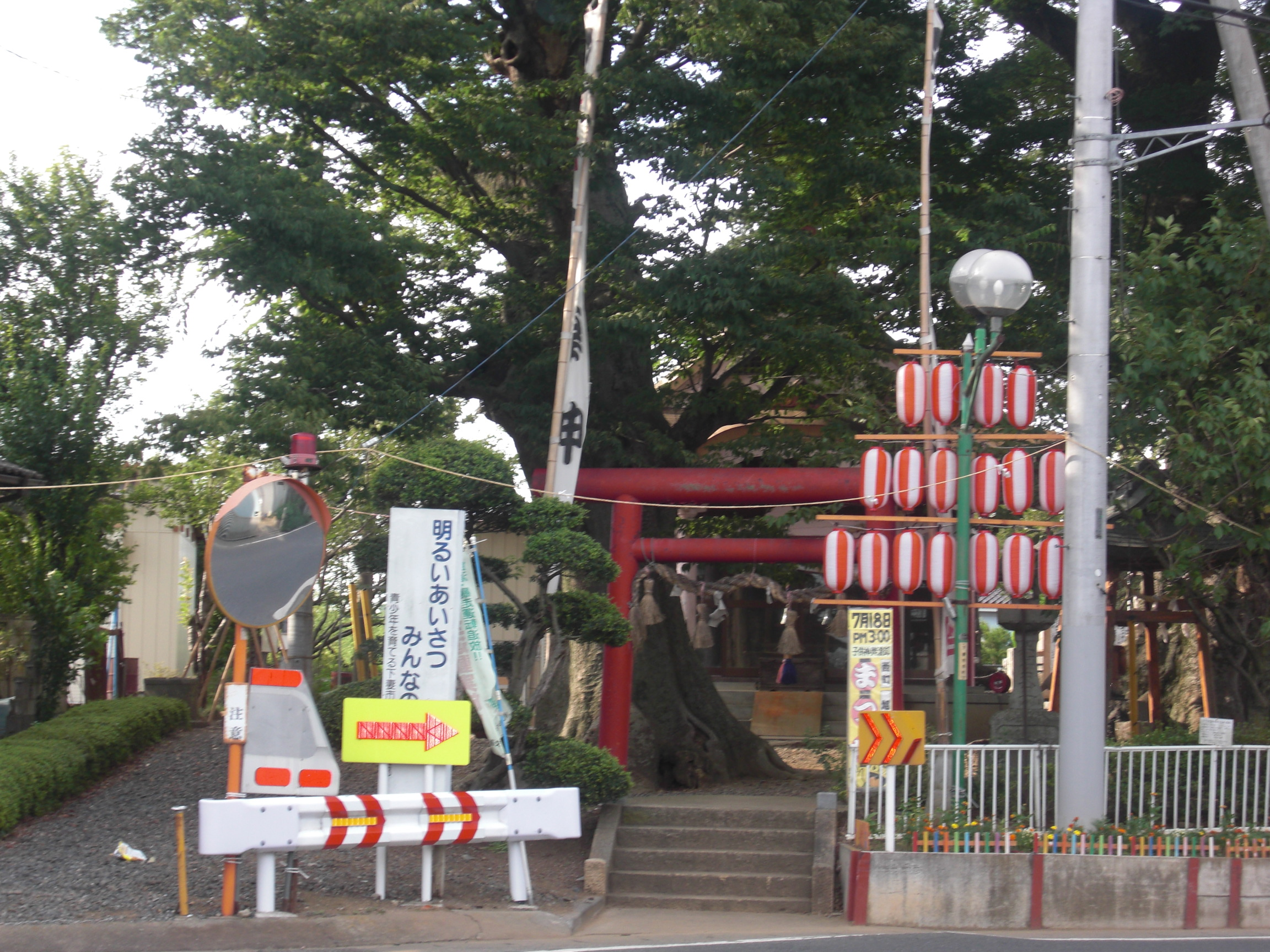 This is the Shimotsuma Shrine in shimotsuma, Ibaraki, Japan.